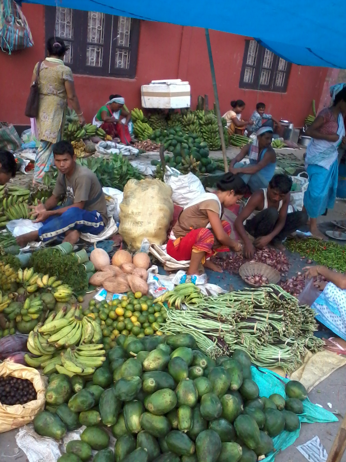 Image of a busy Beltola market on Sunday, took the photograph on 9 September, 2012.